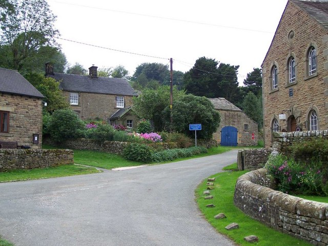 Hollinsclough